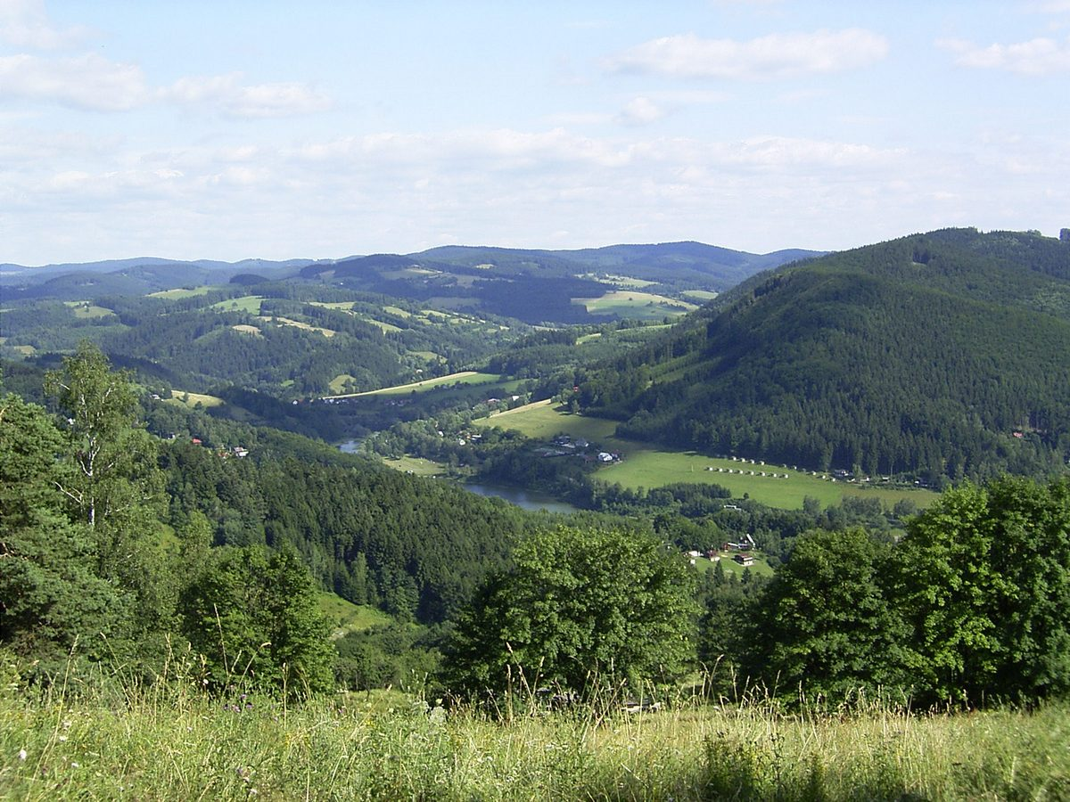 Vsetínské vrchy, Czech republic, with the Klenov msassif on the right and Bystřička Dam on the left